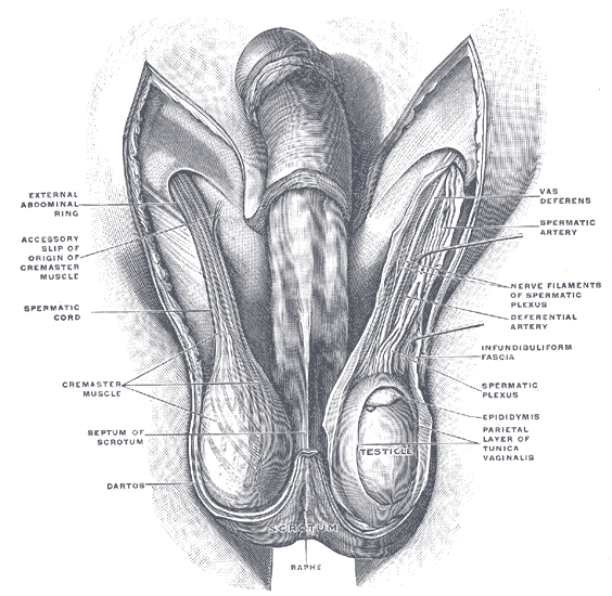 The scrotum. The penis has been turned upward, and the anterior wall of the scrotum has been removed. On the right side, the spermatic cord, the infundibuliform fascia, and the Cremaster muscle are displayed; on the left side, the infundibuliform fascia has been divided by a longitudinal incision passing along the front of the cord and the testicle, and a portion of the parietal layer of the tunica vaginalis has been removed to display the testicle and a portion of the head of the epididymis, which are covered by the visceral layer of the tunica vaginalis. (Toldt.)